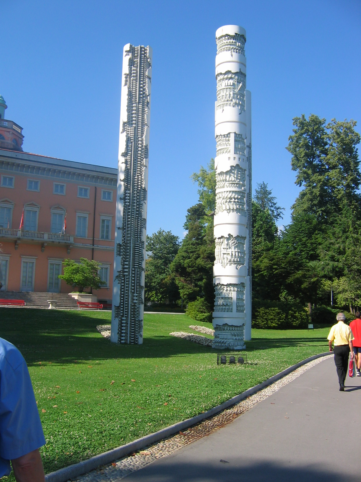 Triade (1979) by Arnaldo Pomodoro in Lugano/Switzerland